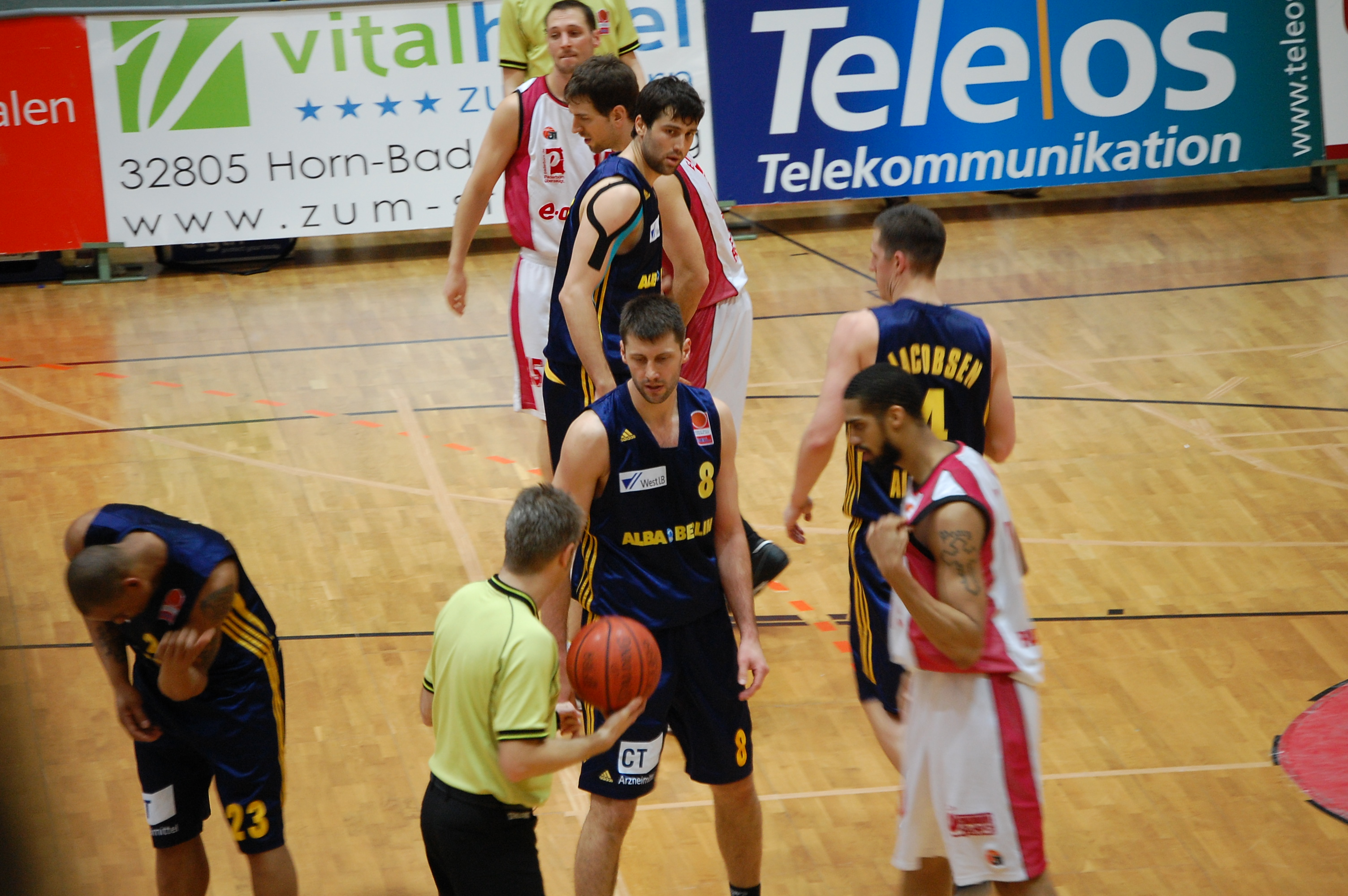 Basketball: Paderborn - Berlin